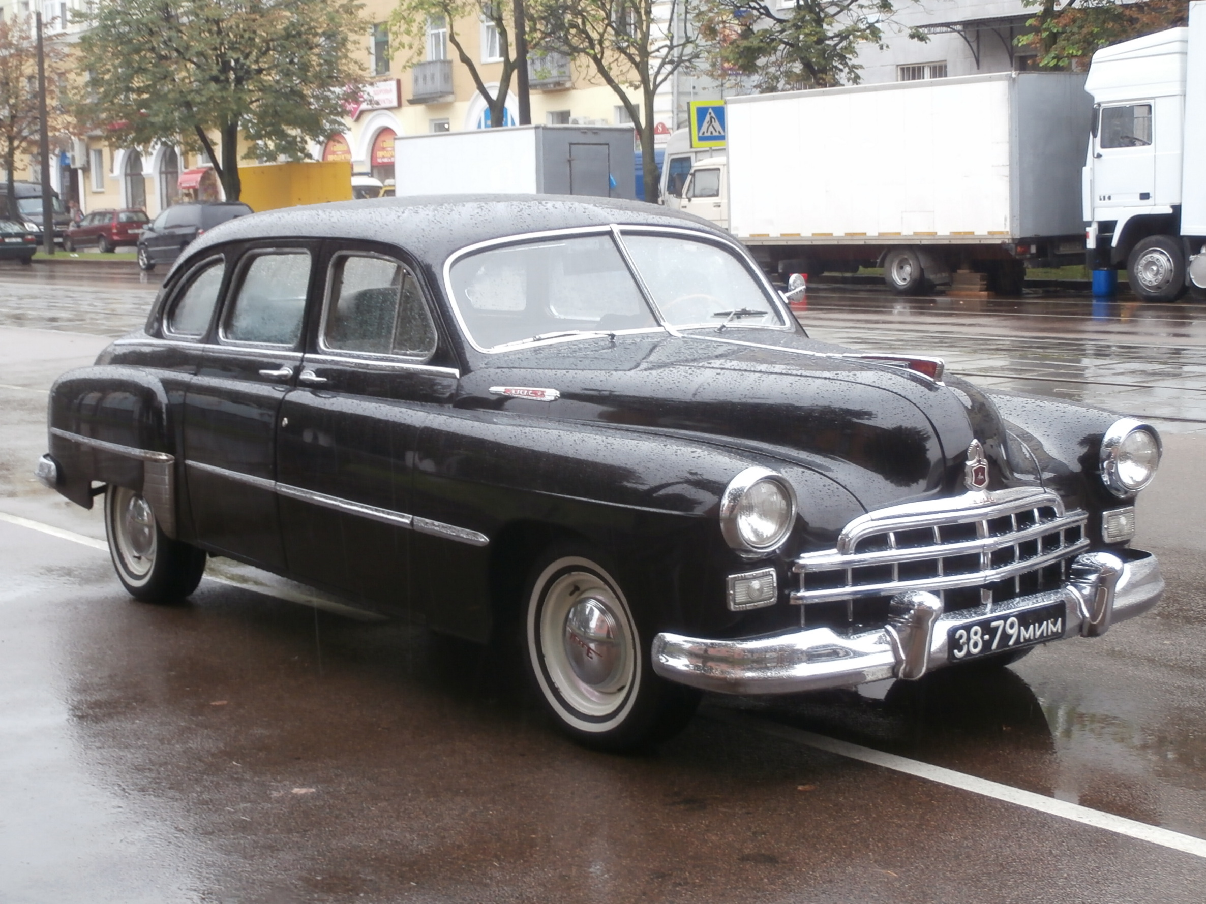 GAZ-12 ZIM 38-79 мим, Źmitrok Biadula Rd, Minsk 24 August 2014